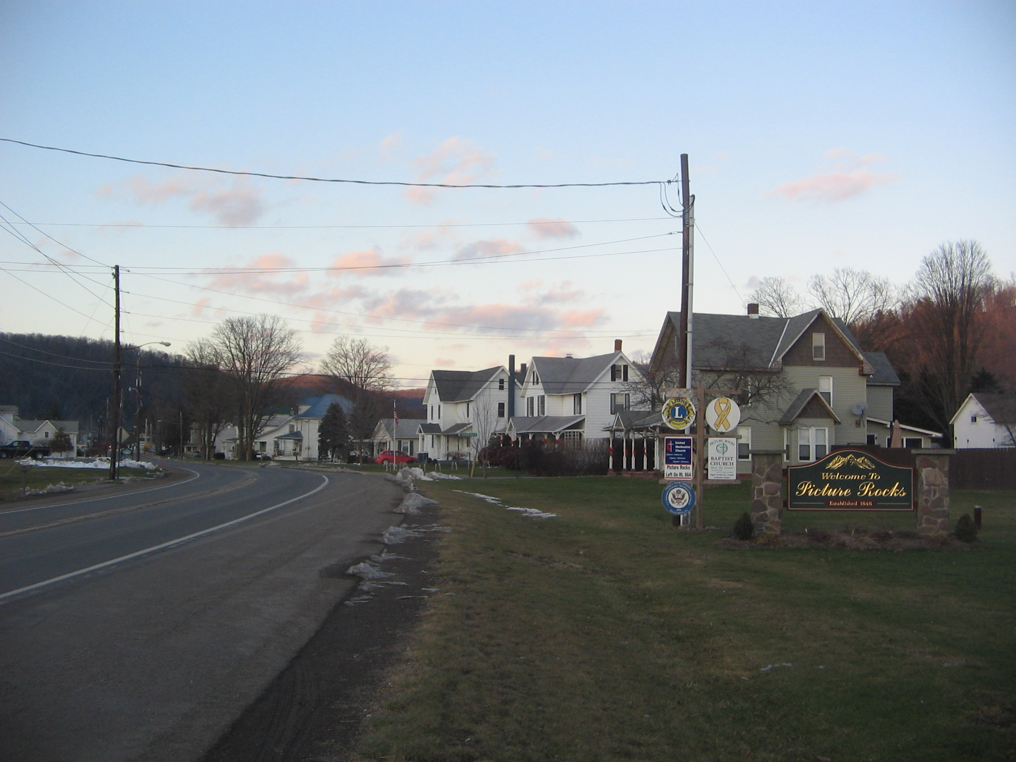 Looking north into the borough of Picture Rocks, Lycoming County, Pennsylvania, USA, on US Route 220